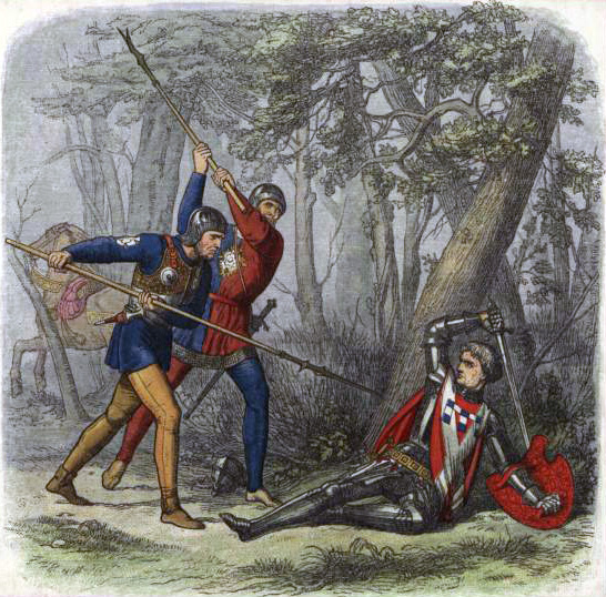 Death of the Kingmaker: a portrayal of the death scene of Richard Neville, 16th Earl of Warwick, at the Battle of Barnet, 14 April 1471